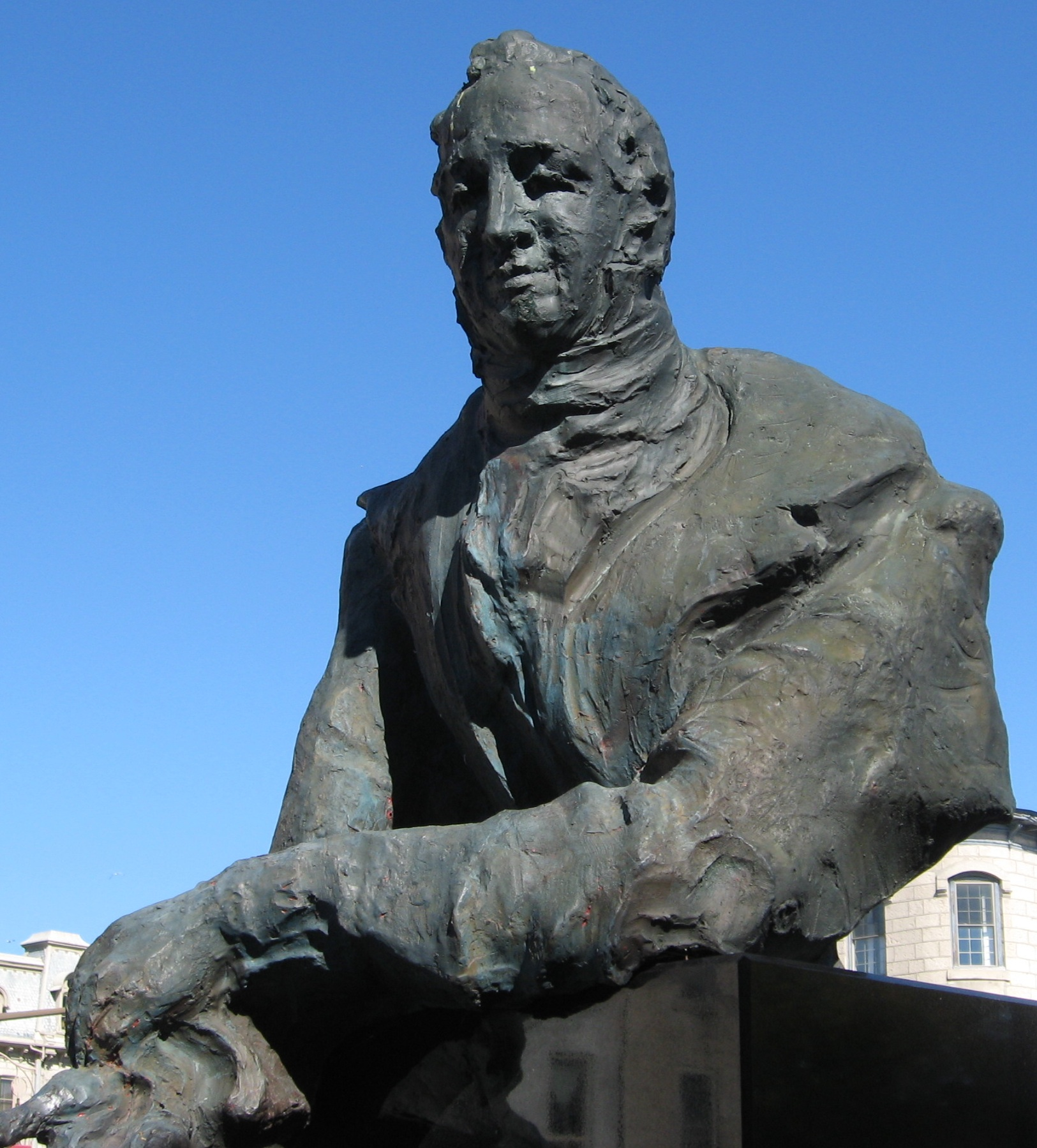 Bust of John Galt outside Guelph, Ontario city hall